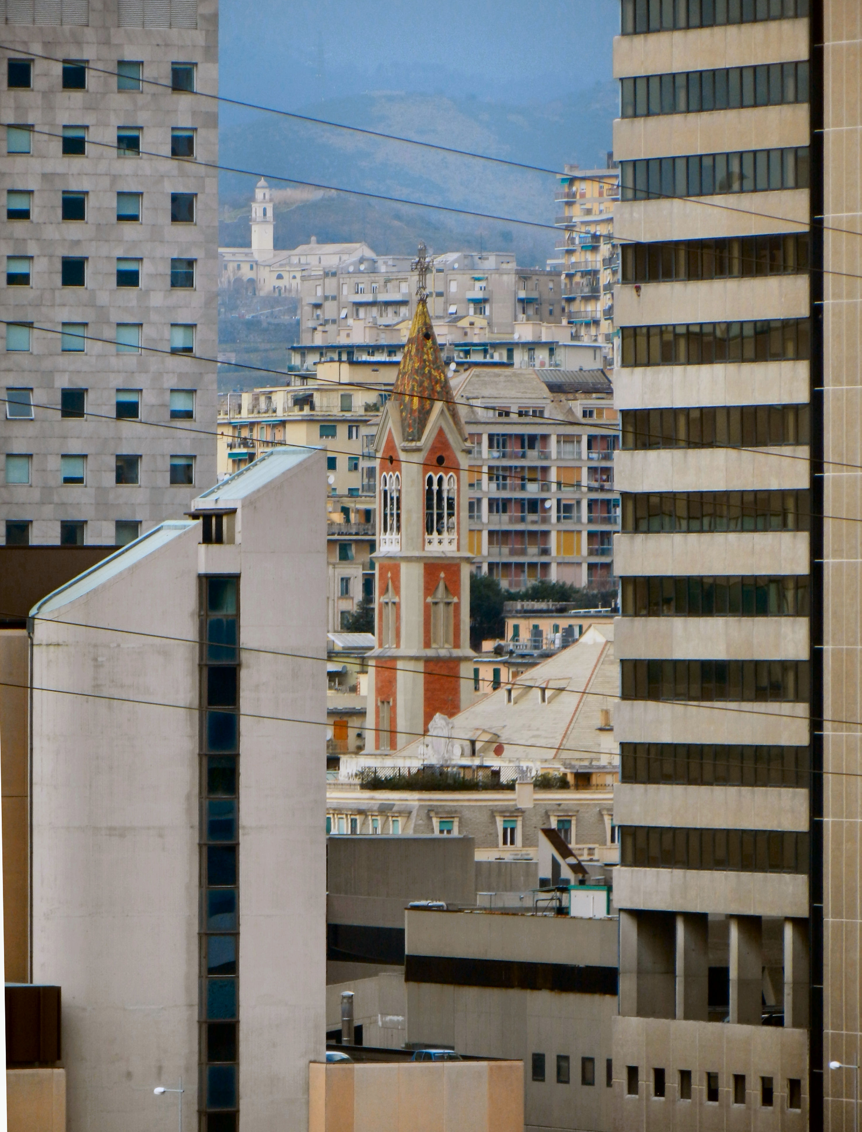 Genoa, Italy, quarter of Sampierdarena, the bell tower of the church of Nostra Signora delle Grazie, between the skyscrapers of San Benigno